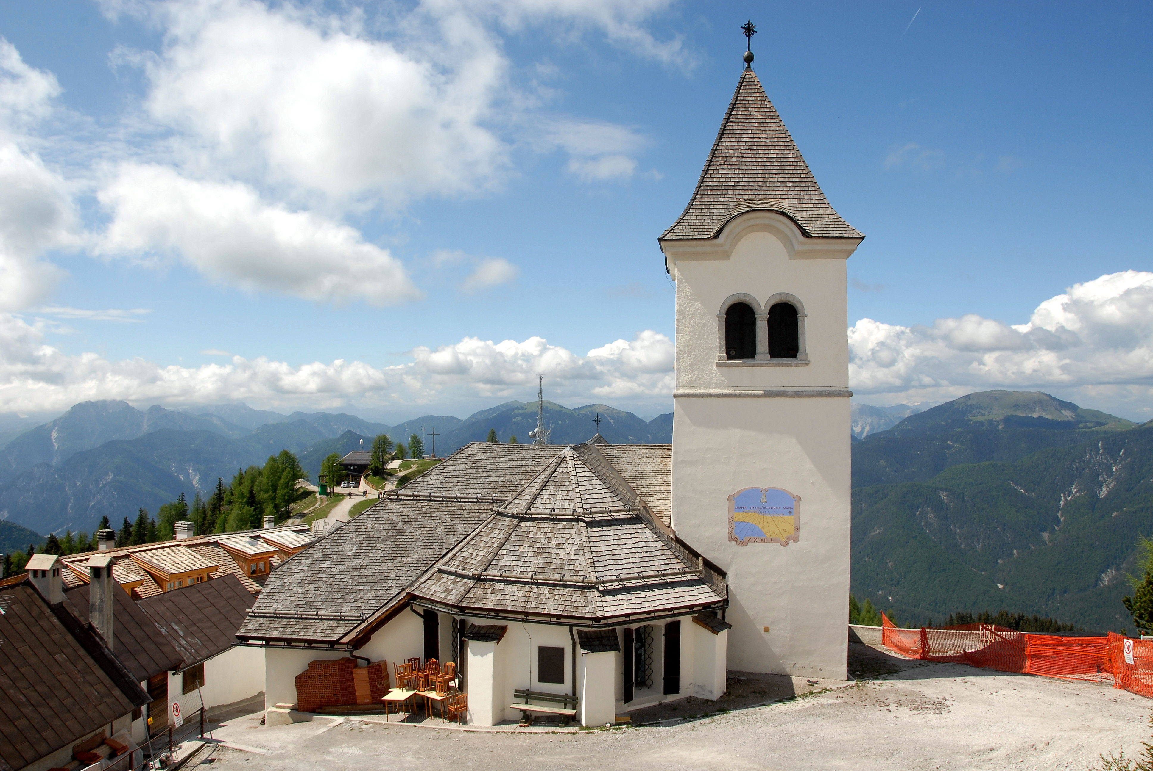 Monte Santo di Lussari with the pilgrimage church "Santa Maria in excelsis", situated in the village Camporosso, community Tarvisio, province of Udine, region Friuli-Venezia Giulia, Italy